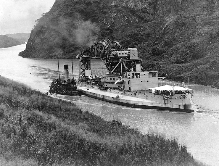 Passing through the Gaillard Cut, while transiting the Panama Canal during the 1920s or 1930s. U.S. Naval History and Heritage Command Photograph NH52037.